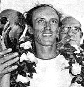 Argentina. Enrique Díaz Sáenz Valiente Winning the 1000 km of Buenos Aires. 1955. RaceCar.